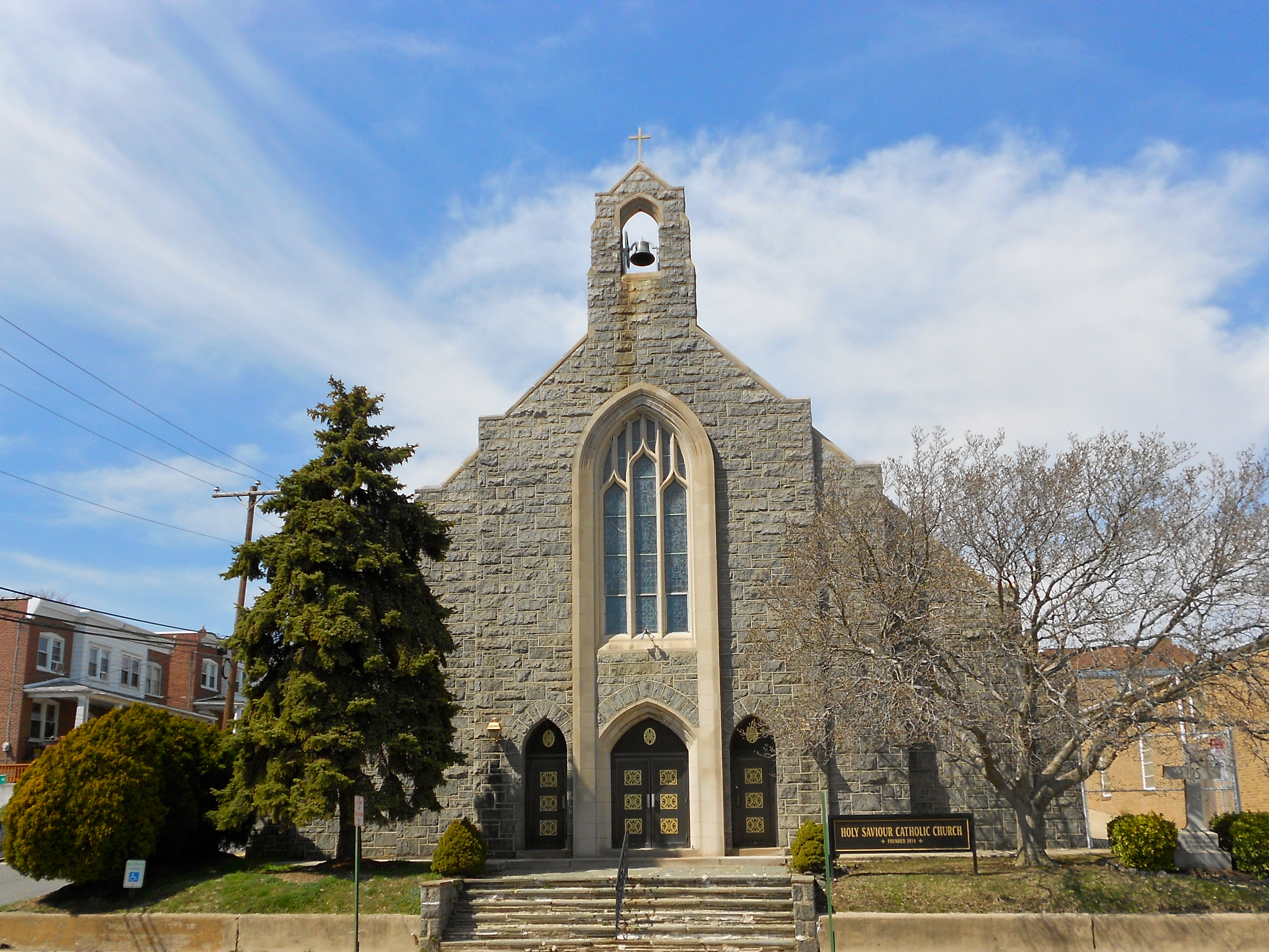 Holy Saviour Roman Catholic Church in Lower Chichester County, Pennsylvania